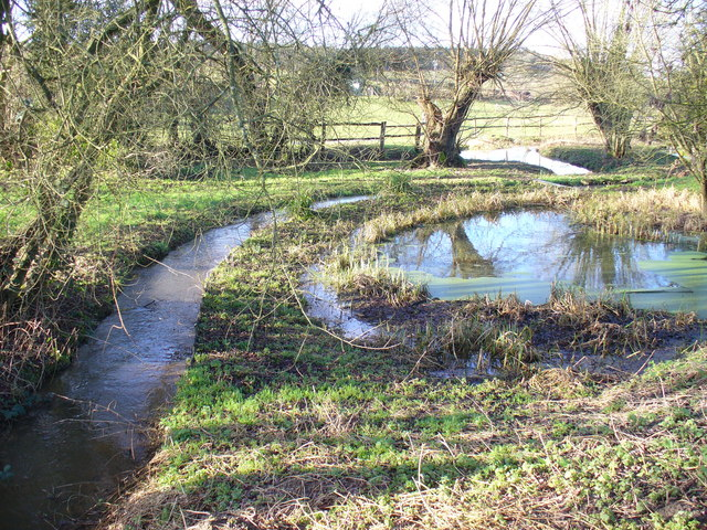 Brook, Brook Shallow and slow flowing stream heading west from the hamlet of Brook. After days of heavy rain, the pools beside the brook are full.